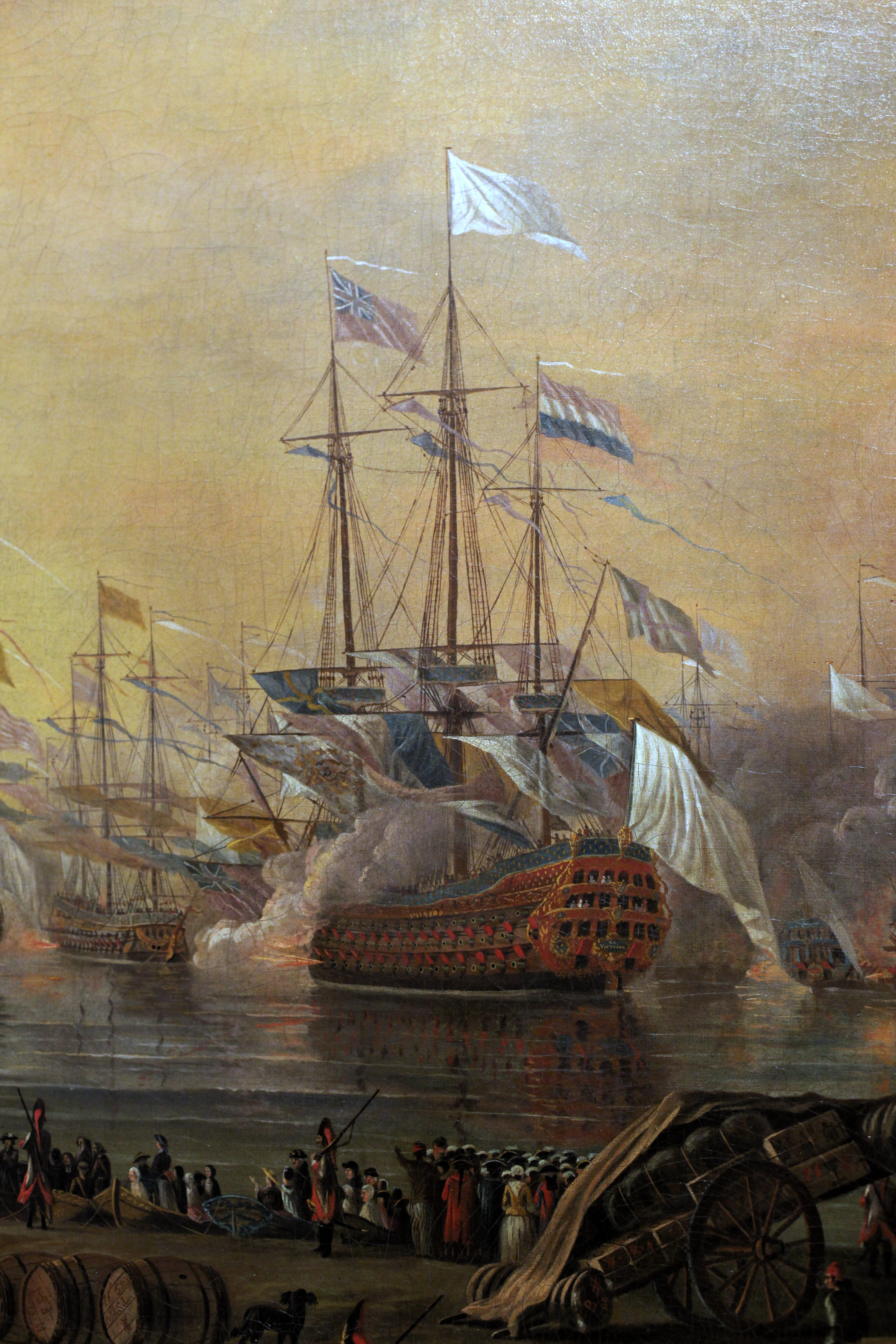 Painting made in July 1777 during the visit of the Count of Provence (brother of King Louis XVI) and the Austrian Emperor Joseph II in Toulon to inspect the arsenal and ships for the war in America.